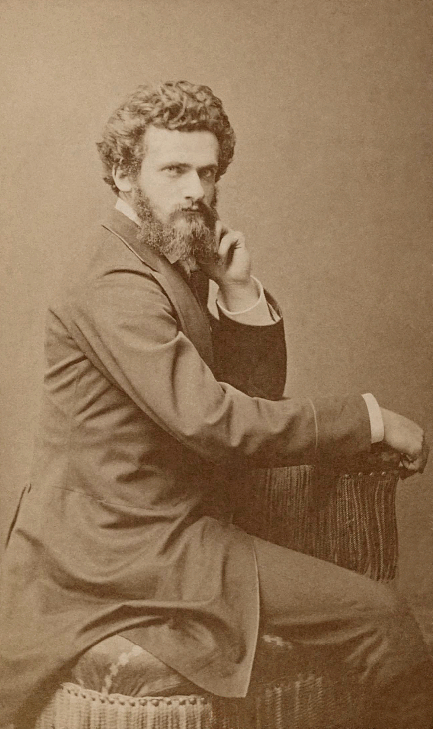 Henri Regnault (1843-1871), french painter.